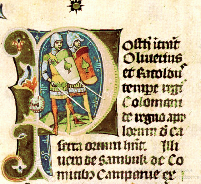 Chronicon Pictum